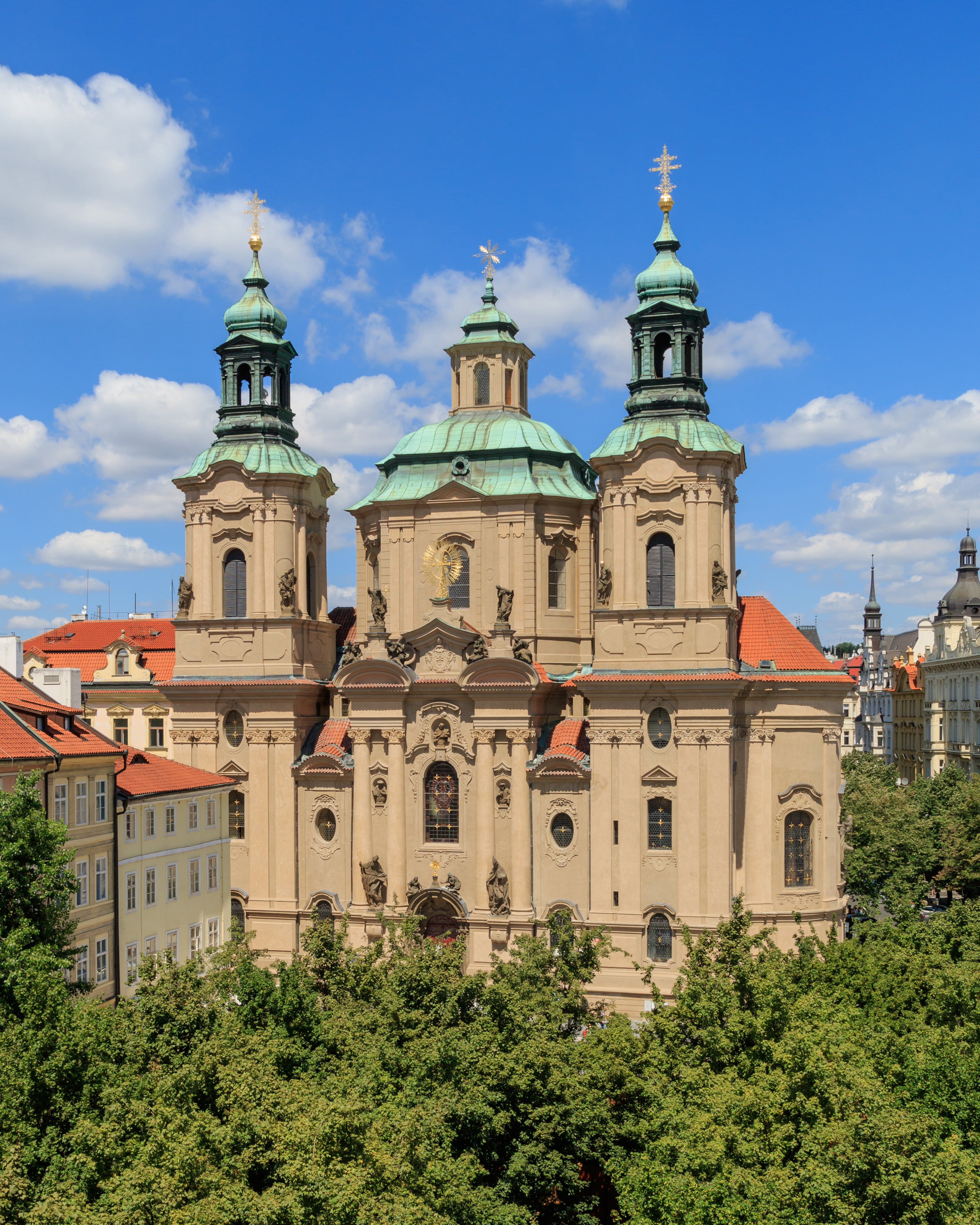 Church of Saint Nicholas at Old Town Square in Prague (Czech Republic)